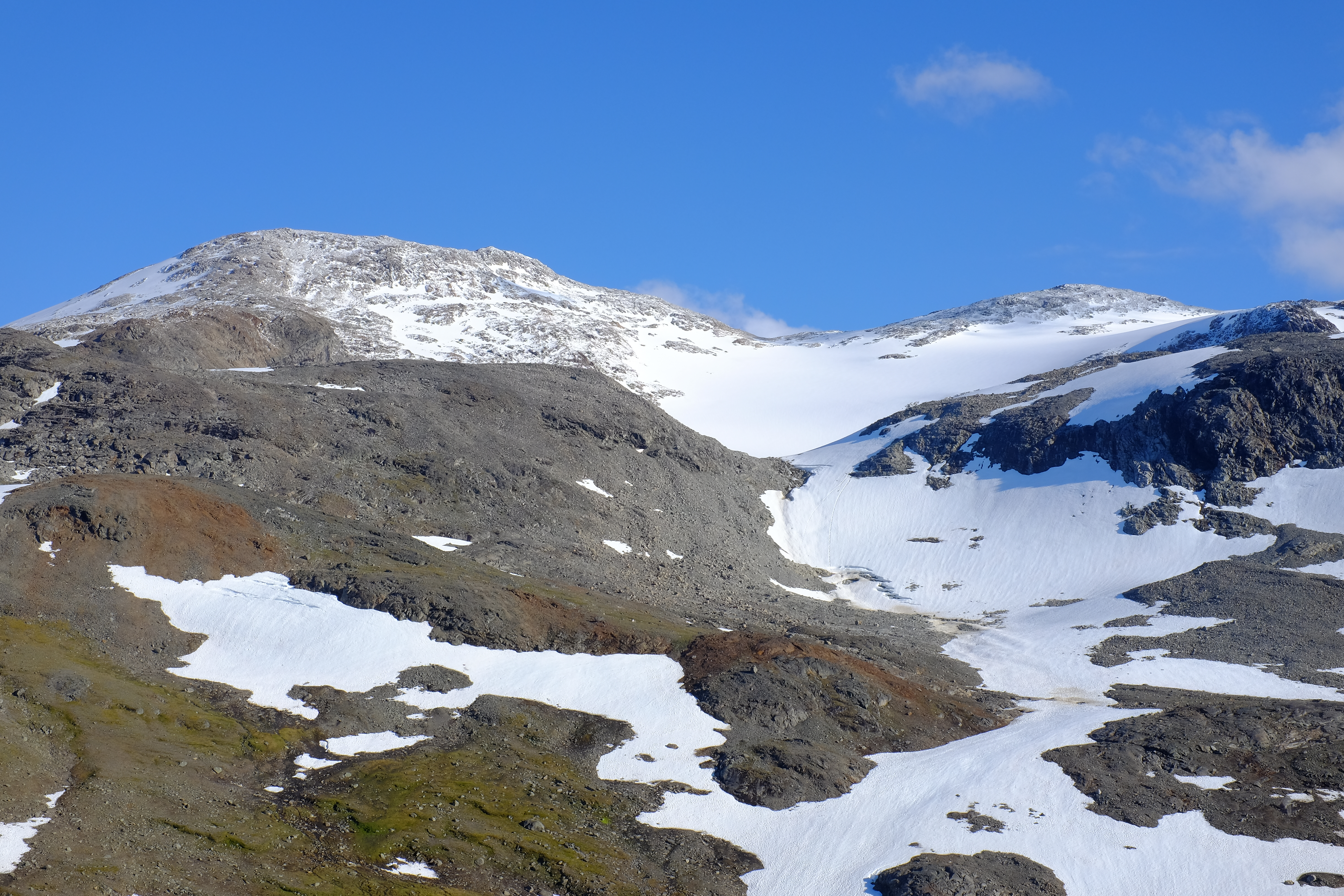 Sårjåstjåhkkå peak (m above sea level) in Sulitjelma, Nordland, Norway.